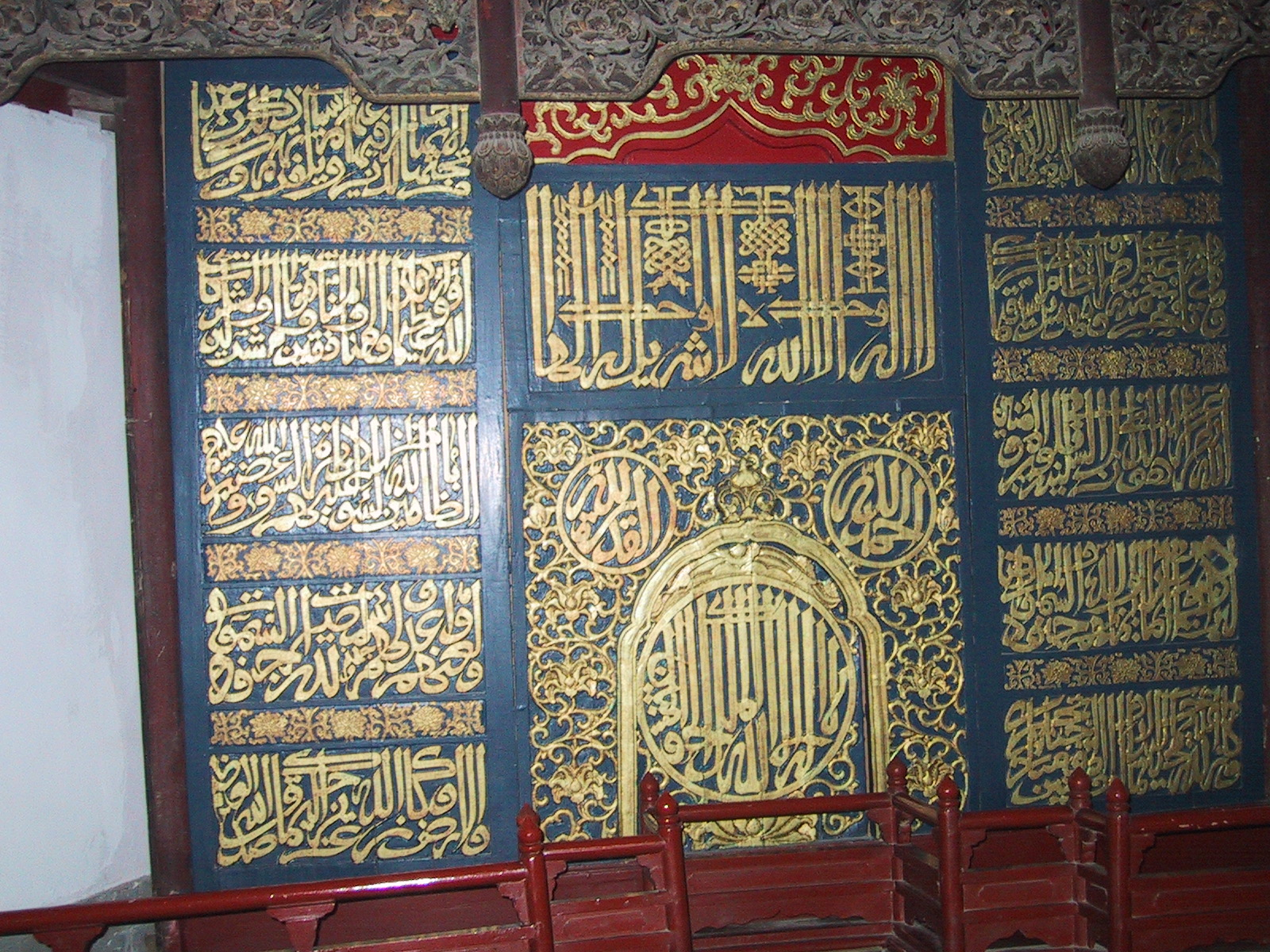 Also, here is a piece from Ibrahim N. Abusharif, on "The Niujie Mosque Niujie Mosque Interior To the southwest of Beijing is Niujie Street, whose main attraction is the Niujie Mosque, which was built in 996 during the Liao Dynasty. It is the oldest and largest of the 70 or so mosques in Beijing, covering nearly 6000 square meters. It is said that on a daily basis more than two hundred people worship at the mosque, and nearly a thousand worshippers attend the Friday Congregational Prayer (Jumu’a). The Niujie Mosque was the first “Muslim” experience of the trip so far. It bore a distinct look that we would come across frequently throughout the trip, namely, an architecture that is both Chinese and Muslim. To the Chinese, the Mosque is not a structure that pops out as peculiar looking or alien. It is honored as a historical Chinese site and respected as a house of worship. Inside, one is taken aback by the master calligraphy of Quranic passages, especially those that line some of the 20 or so beautiful and colorful archways, many of which are rich maroon. The Mosque has a Quran school and several halls for classes and other events. The Mosque is a major tourist attraction in the district, which has more than 20,000 Muslims. (The estimated population of Muslims in Beijing is 200,000.) It has a hexagonal-shaped tower that appears to be a minaret; however, the open space it covers is where worshippers gather for remembrance. The roof covering the main prayer hall is constructed in the style of traditional Chinese architecture, called Zaojing, found throughout the nation. In the courtyard at the southeast corner of the Mosque are the gravesites of two early Muslims men who came to China (presumably from Bukhara) to teach Islam. Their graves are honored with carved tablets with the names of the men. Today, the 700-year-old tombs are well-kept and respected as one of the rare sites of China."